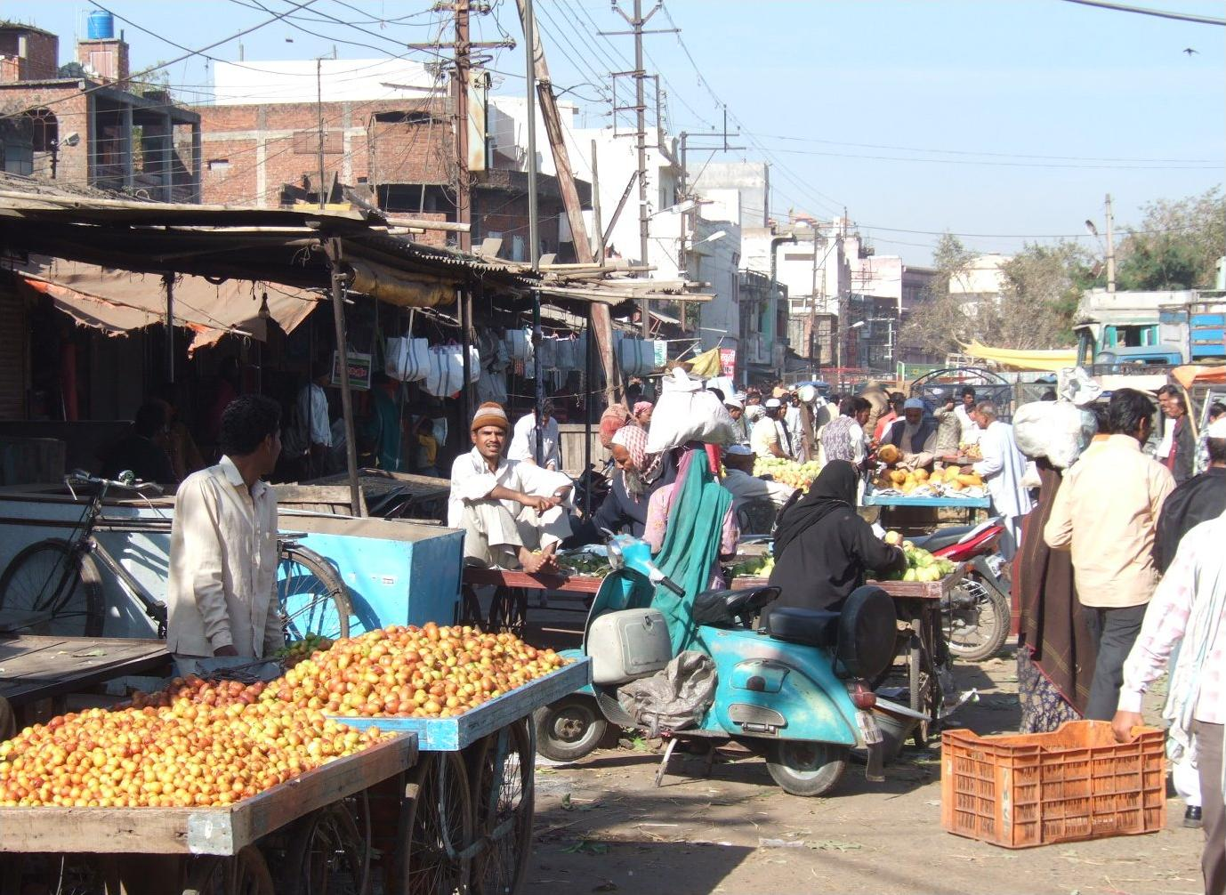 Market in Bhopal